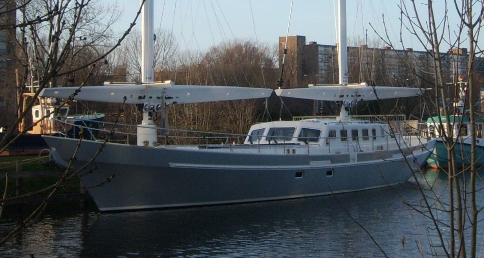 Wubbo Ockels' ship, the 'Ecolution 84', Reitdiep, Groningen, Dec 24, 2011.